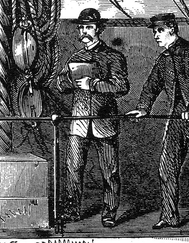 American Civil War artist correspondent William Waud's depiction of himself in the rigging of the U.S. Steamer Mississippi in action against confederate gunboats. This detail is from Waud’s illustration of a naval engagement during Farragut’s expedition against New Orleans, published in the May 31, 1862 edition of Frank Leslie's Illustrated Newspaper. This is the only known likeness of William.